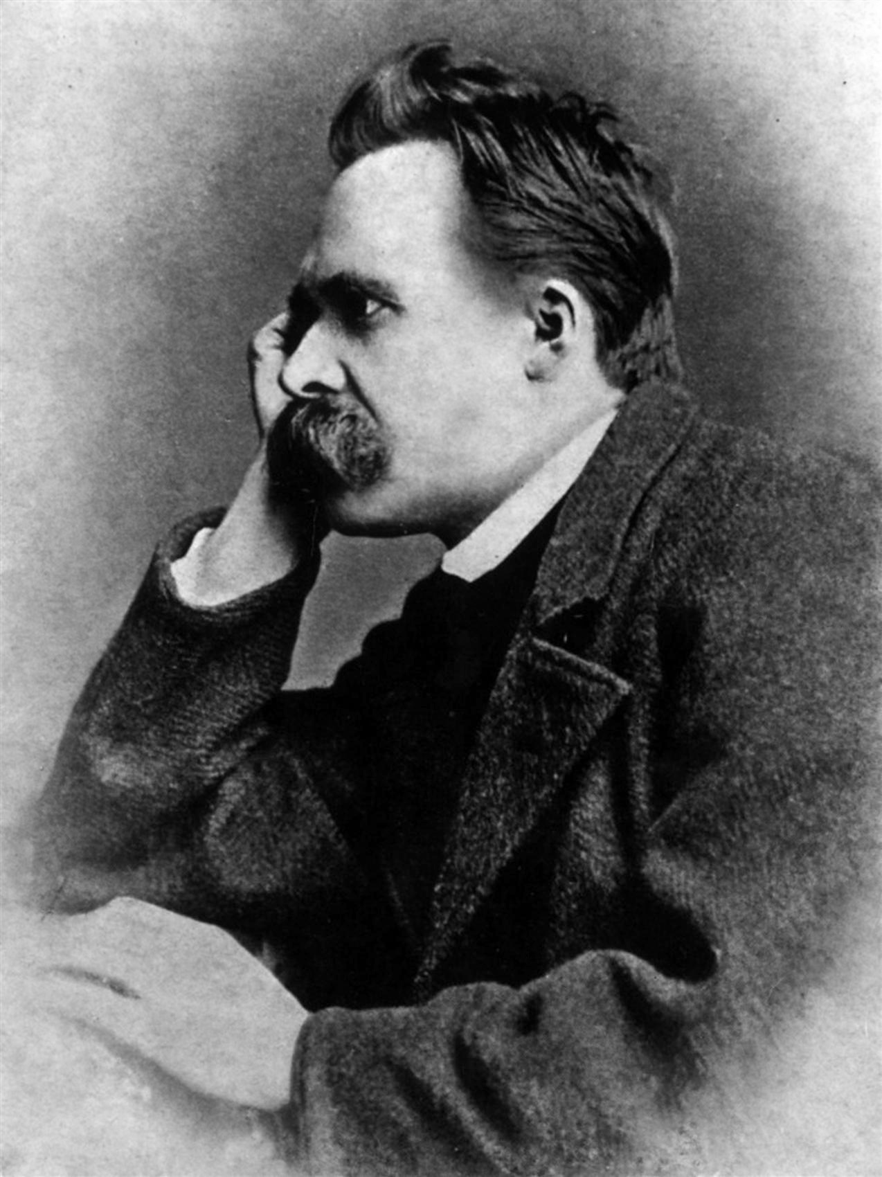 Portrait of Friedrich Nietzsche, 1882; One of five photographies by photographer Gustav Schultze, Naumburg, taken early September 1882. Public domain due to age of photography. Scan processed by Anton (2005)